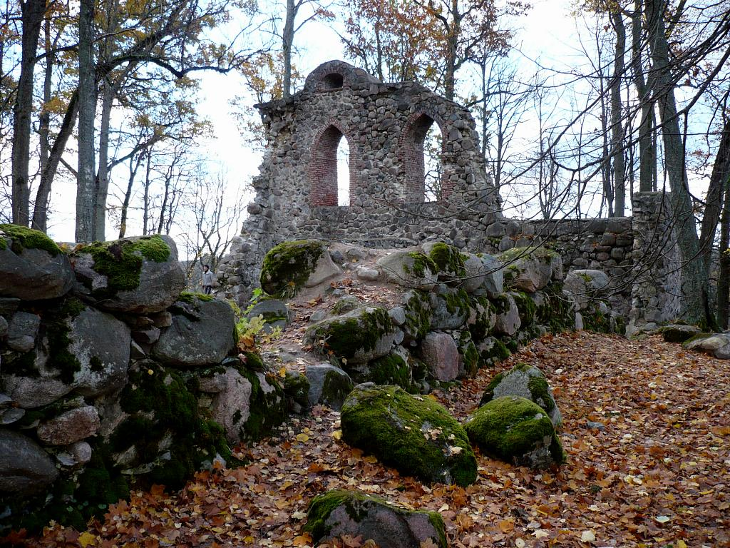 Krimulda Castle ruins